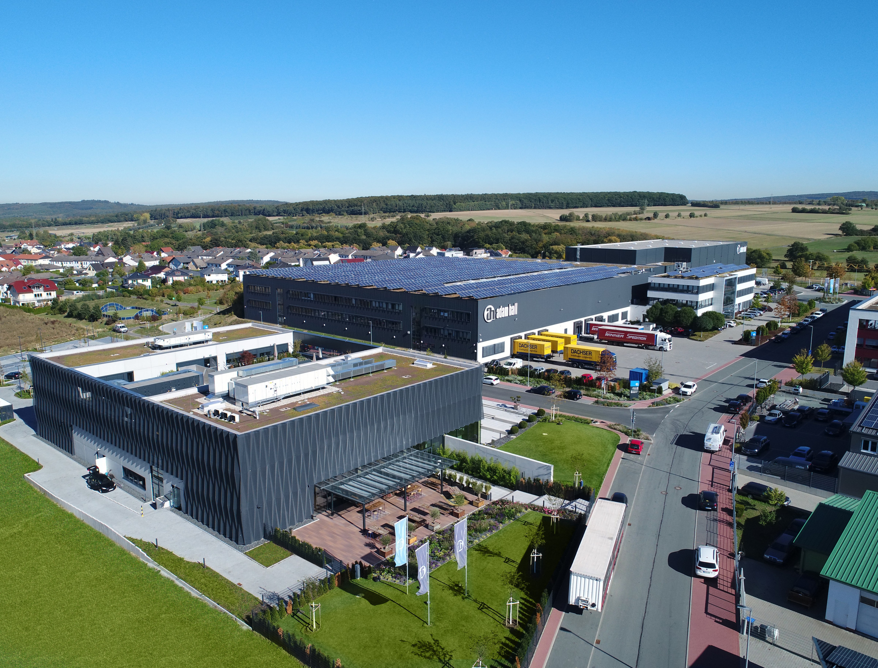 Adam Hall Group Birdview 2018